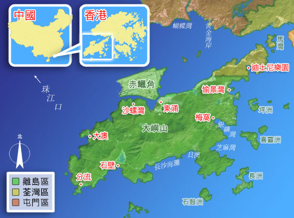 Chinese Map of Lantau Island, Hong Kong 香港大嶼山中文地圖